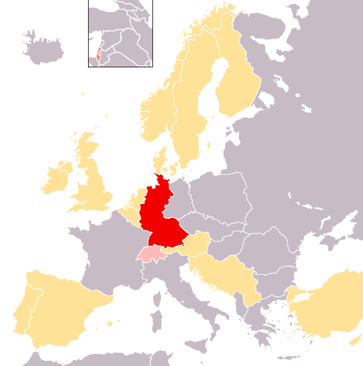 Map of Eurovision 1982